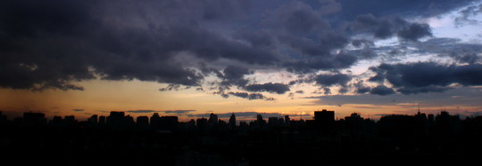 Skyline of Chengdu